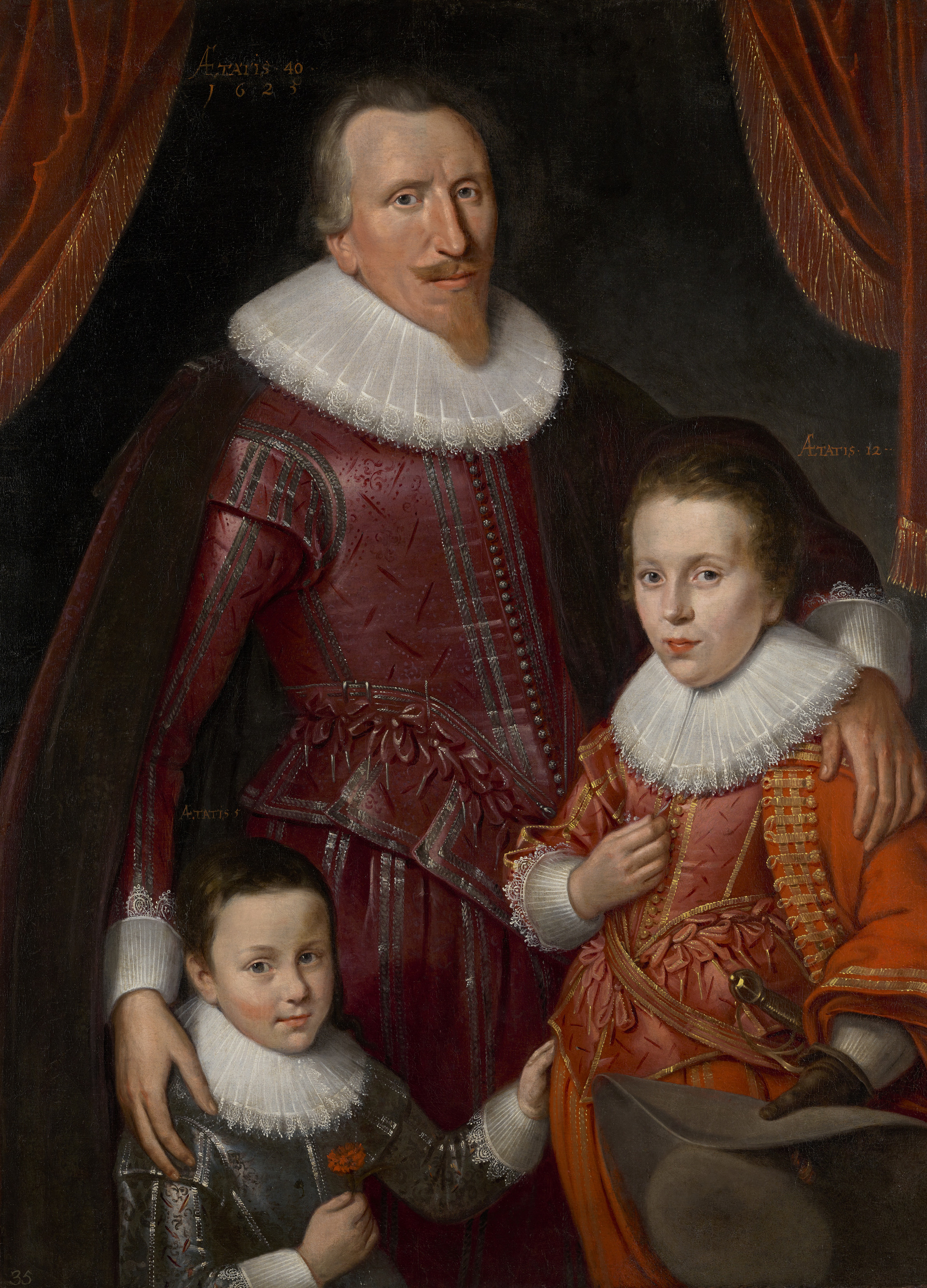 Title:George Seton, 8th Lord Seton and 3rd Earl of Winton, 1584 - 1650. Royalist (With his sons, George, Lord Seton, 1613 - 1648 and Alexander, 1st Viscount Kingston, 1620 - 1691. Royalists) Accession number:PG 3656 Artist:Adam de ColoneScottish Depicted:George Seton Gallery:Scottish National Portrait Gallery(On Display) Object type:Painting Subject:Families Materials: Oil on canvas Date created:1625 Measurements:113.00 x 83.80 cm (framed: 137.00 x 106.80 x 9.50 cm) Credit line:Accepted by HM Government in lieu of Inheritance Tax and allocated to the Scottish National Portrait Gallery 2010.